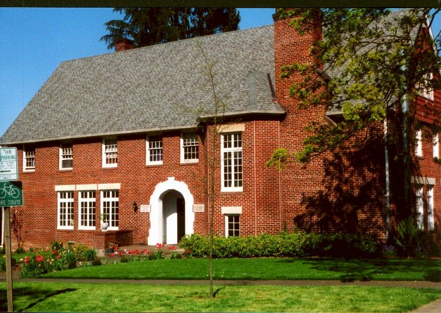 Gutenberg College in Eugene, Oregon, USA